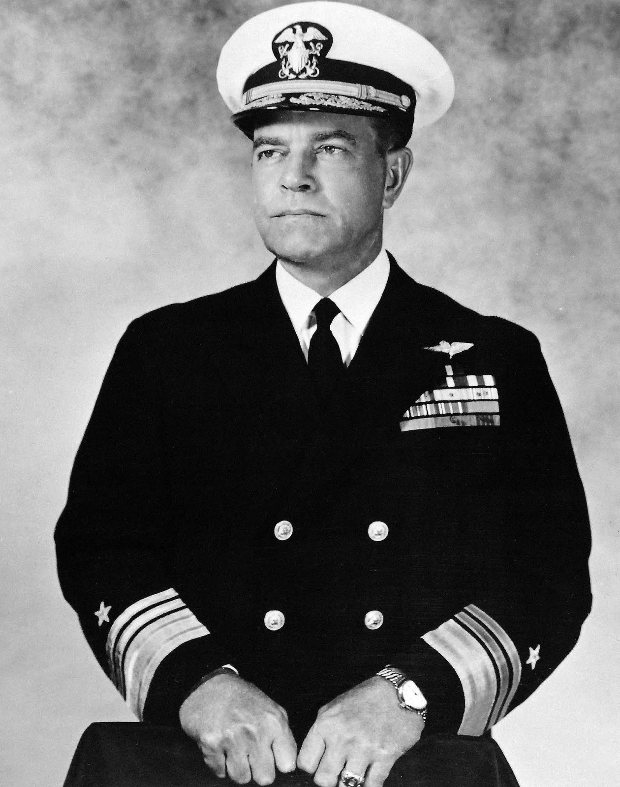 Vice admiral Patrick N. L. Bellinger, USN as Commander, Naval Air Force, Atlantic during World War II (National Archives and Records Administration).